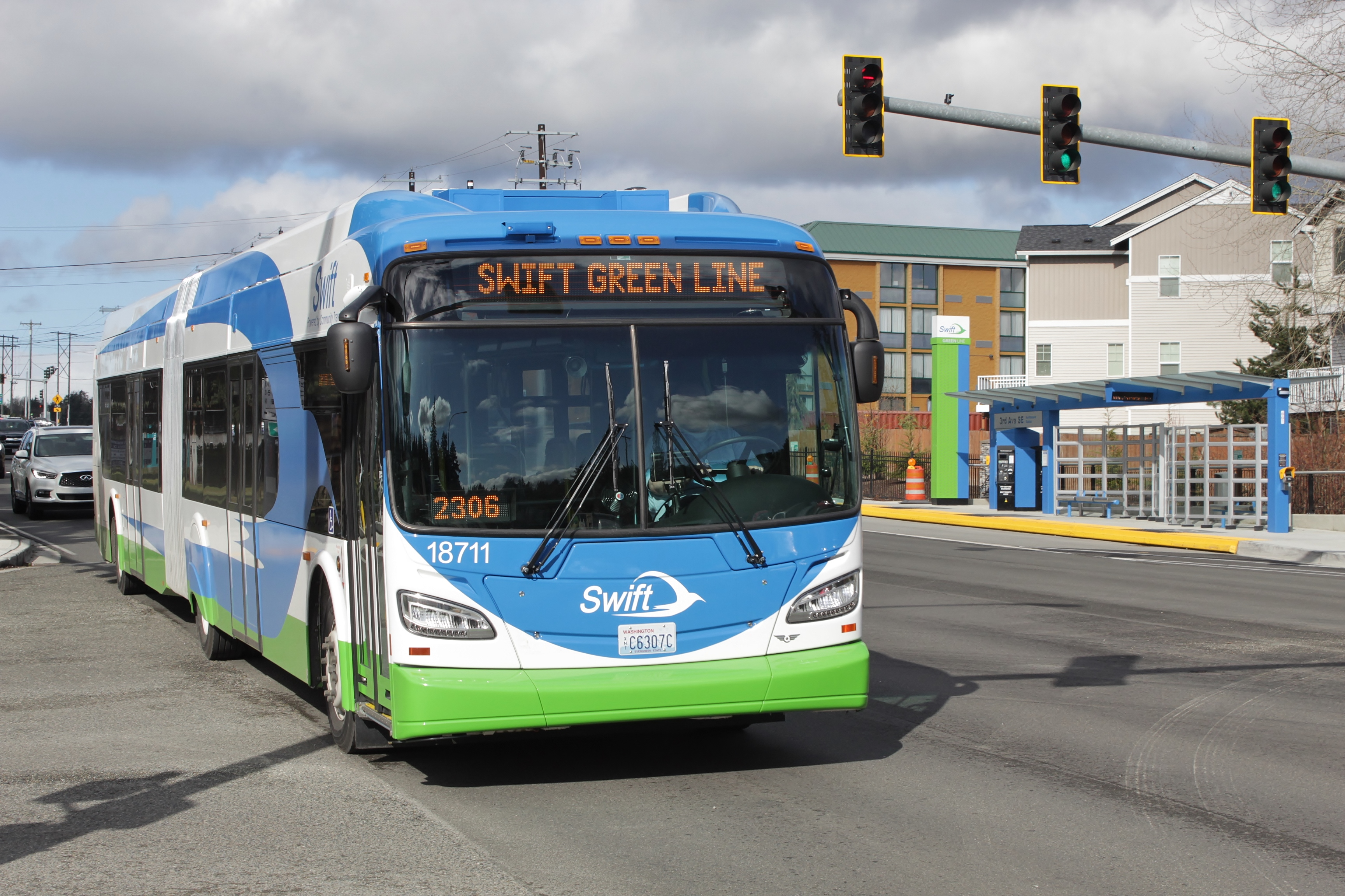 A bus rapid transit vehicle on the Swift Green Line in Snohomish County, Washington, pictured entering the southbound station at 3rd Avenue Southeast in Everett. The northbound station is seen in the background.